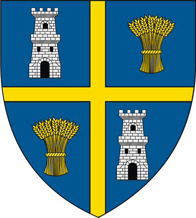 Coat of arms of Olt County, Romania.